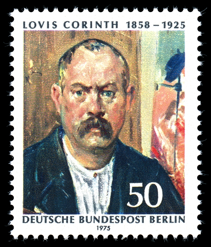 Stamp from Deutsche Bundespost Berlin from 1975, 50th anniversary of Corinth